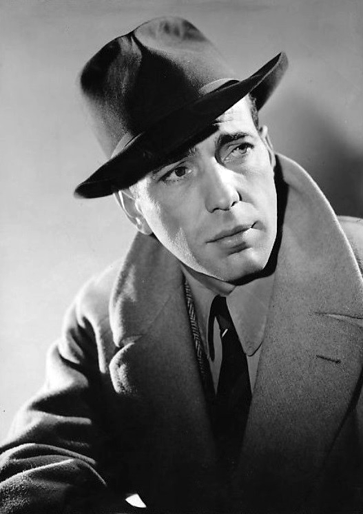 Photo of Humphrey Bogart. The release at back says this was a new photo of him from the upcoming film Brother Orchid.